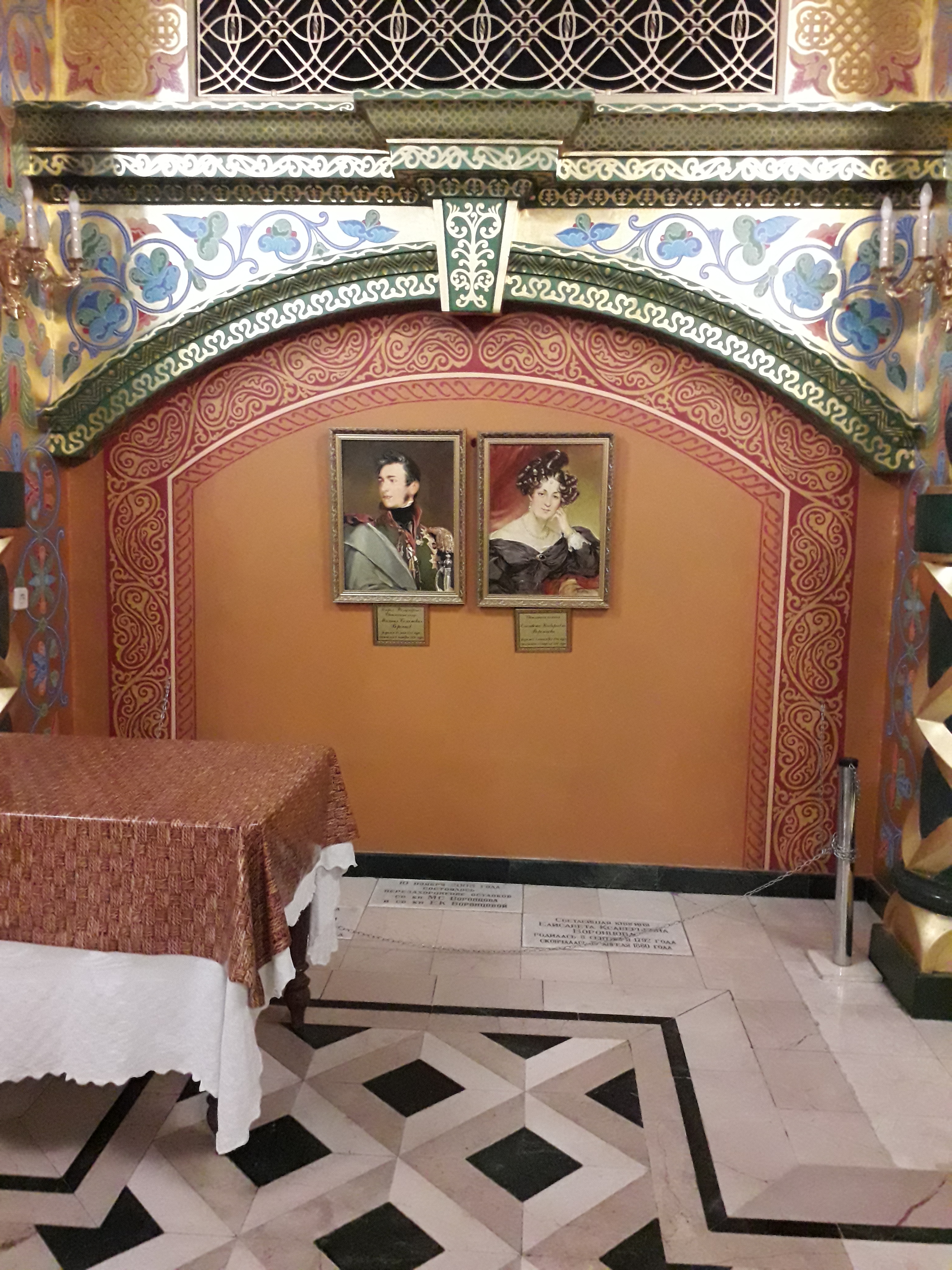 Michail Voronsov grave